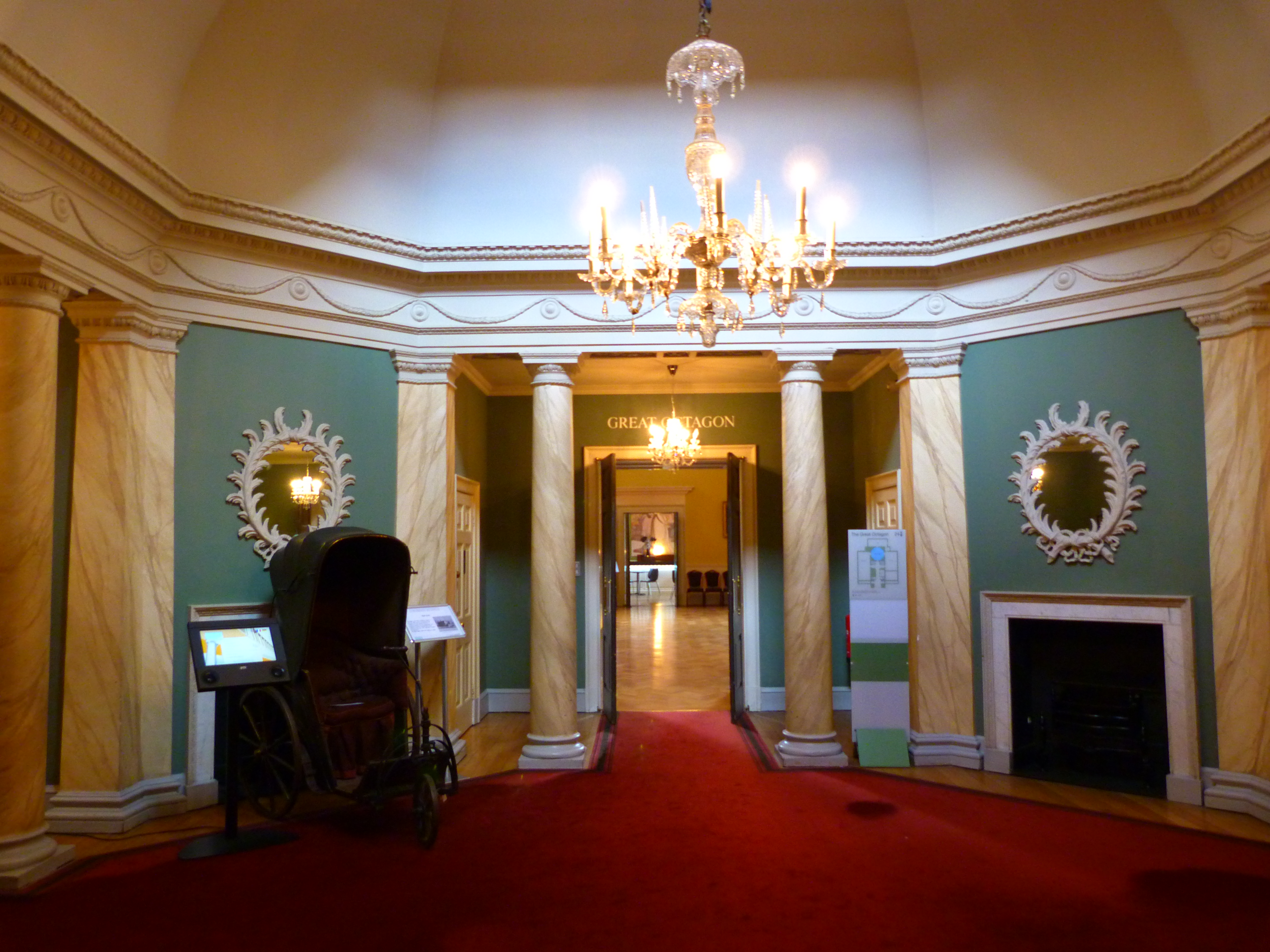 The view into the Octagon Room, Bath Assembly Rooms.